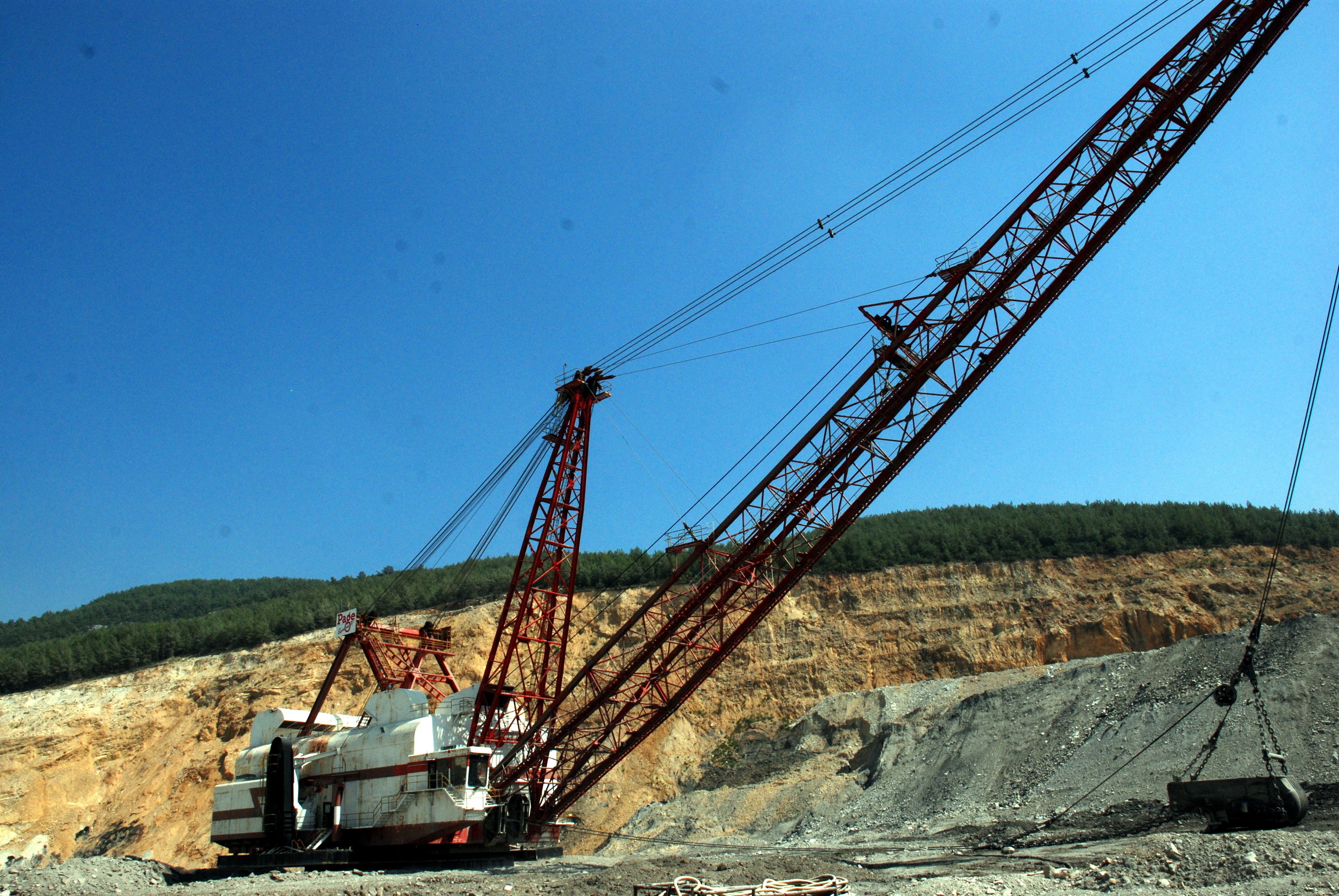 A dragline in Yeniköy Open Pit Coal Mining, Milas, Mugla, Turkey.